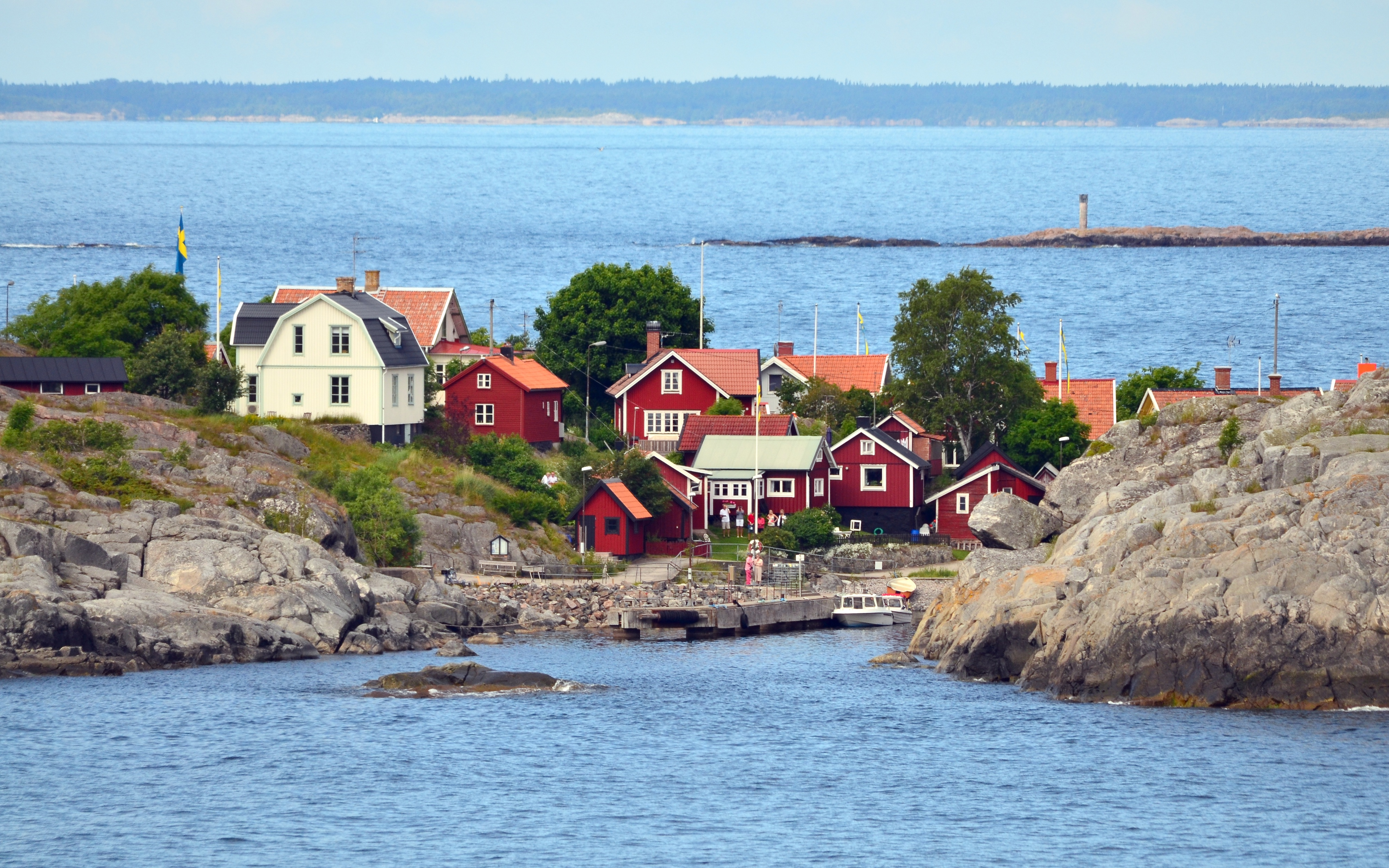 East haven on Landsort, Stockholm archipelago, Sweden.